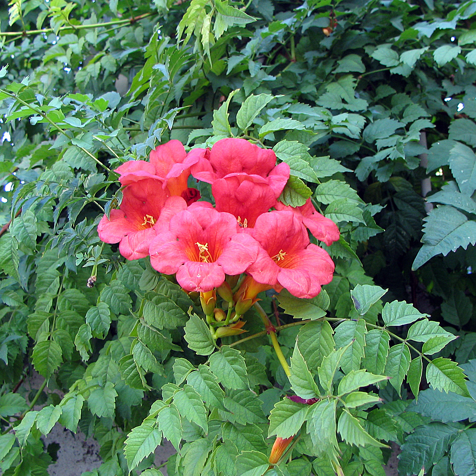 Campsis radicans inflorescence